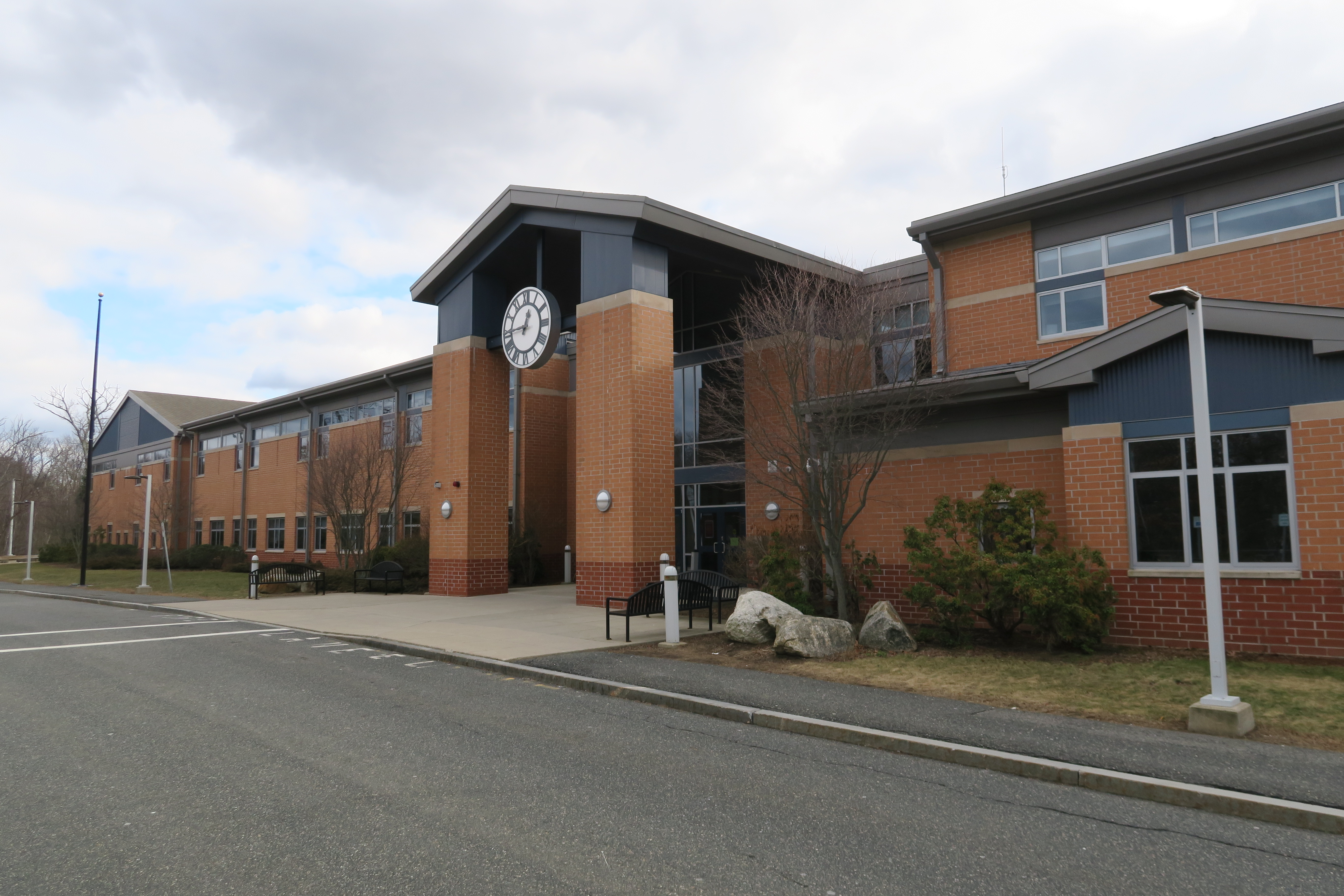 Ashland High School, Ashland Massachusetts